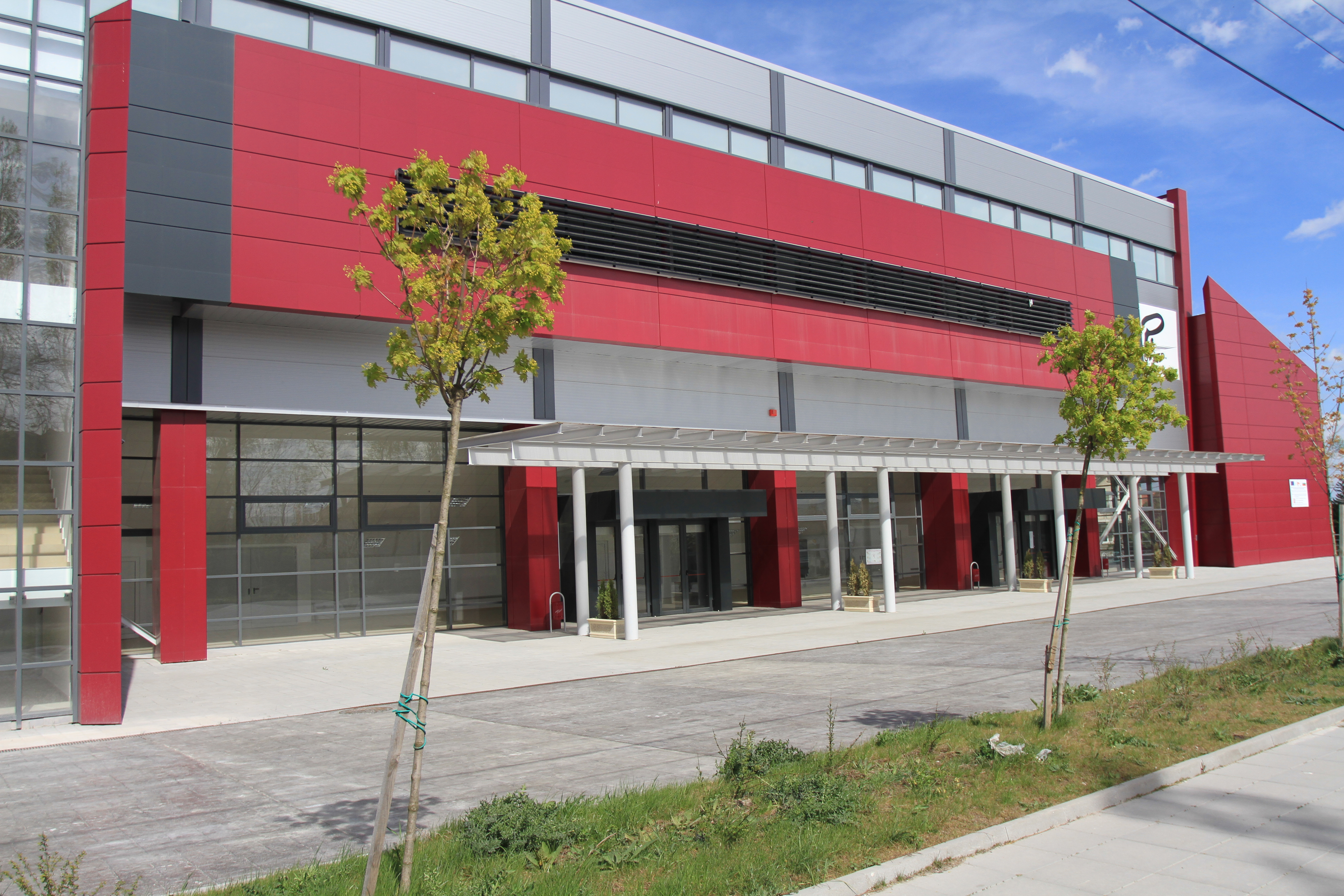 Hall "Arena Slivnitsa", Slivnitsa, Bulgaria